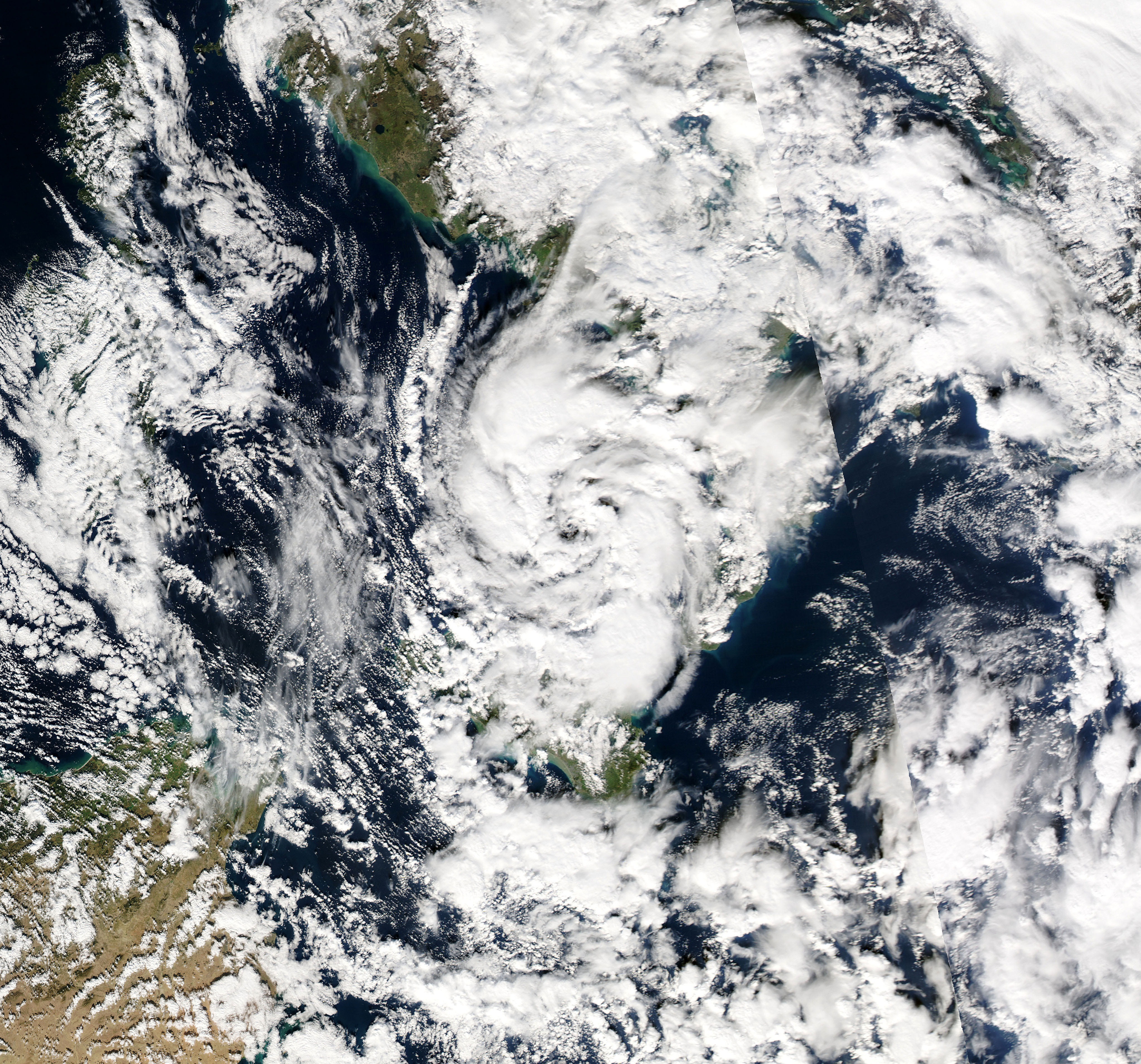 A possible Mediterranean tropical cyclone nearing landfall on Italy, on January 28, 2009.